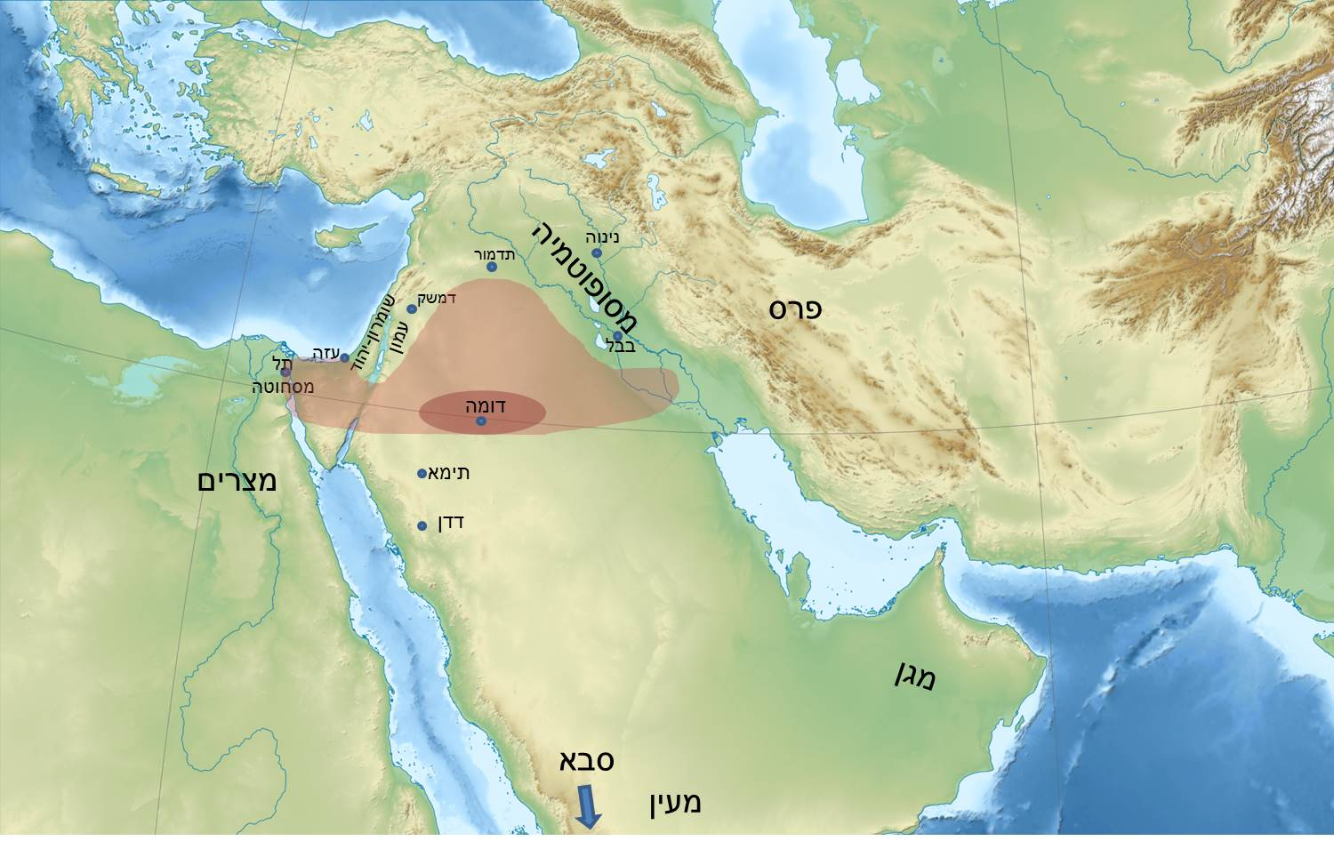 Core and areas of influence and presence of the Qedarite Arab kingdom in it's largest form in the 5th Century.